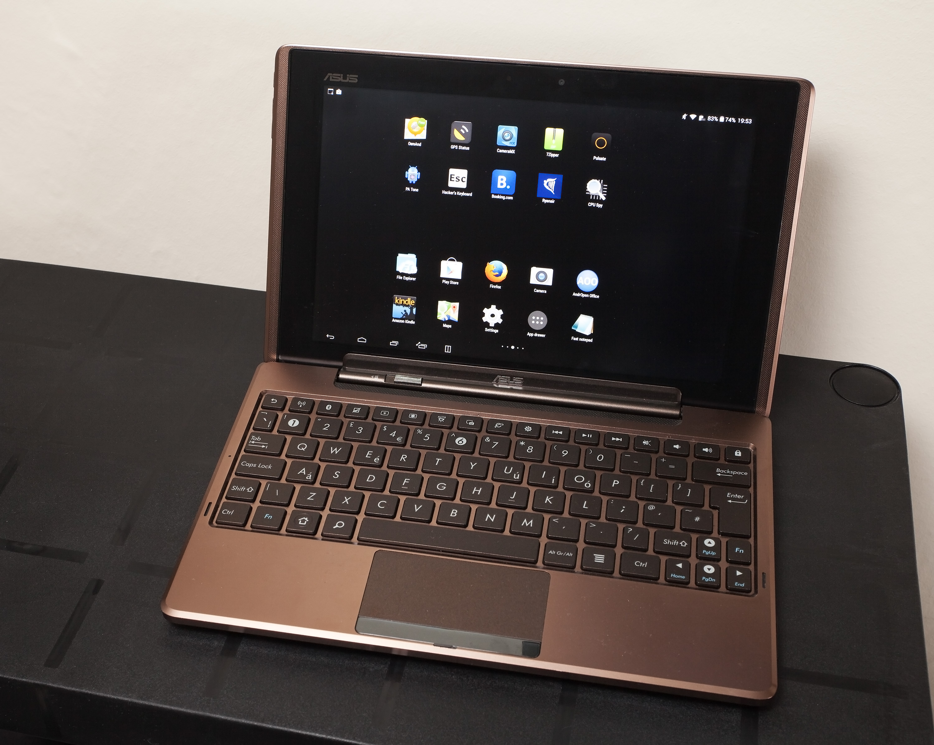 An Asus TF101 Eee Pad Transformer docked in its docking station.